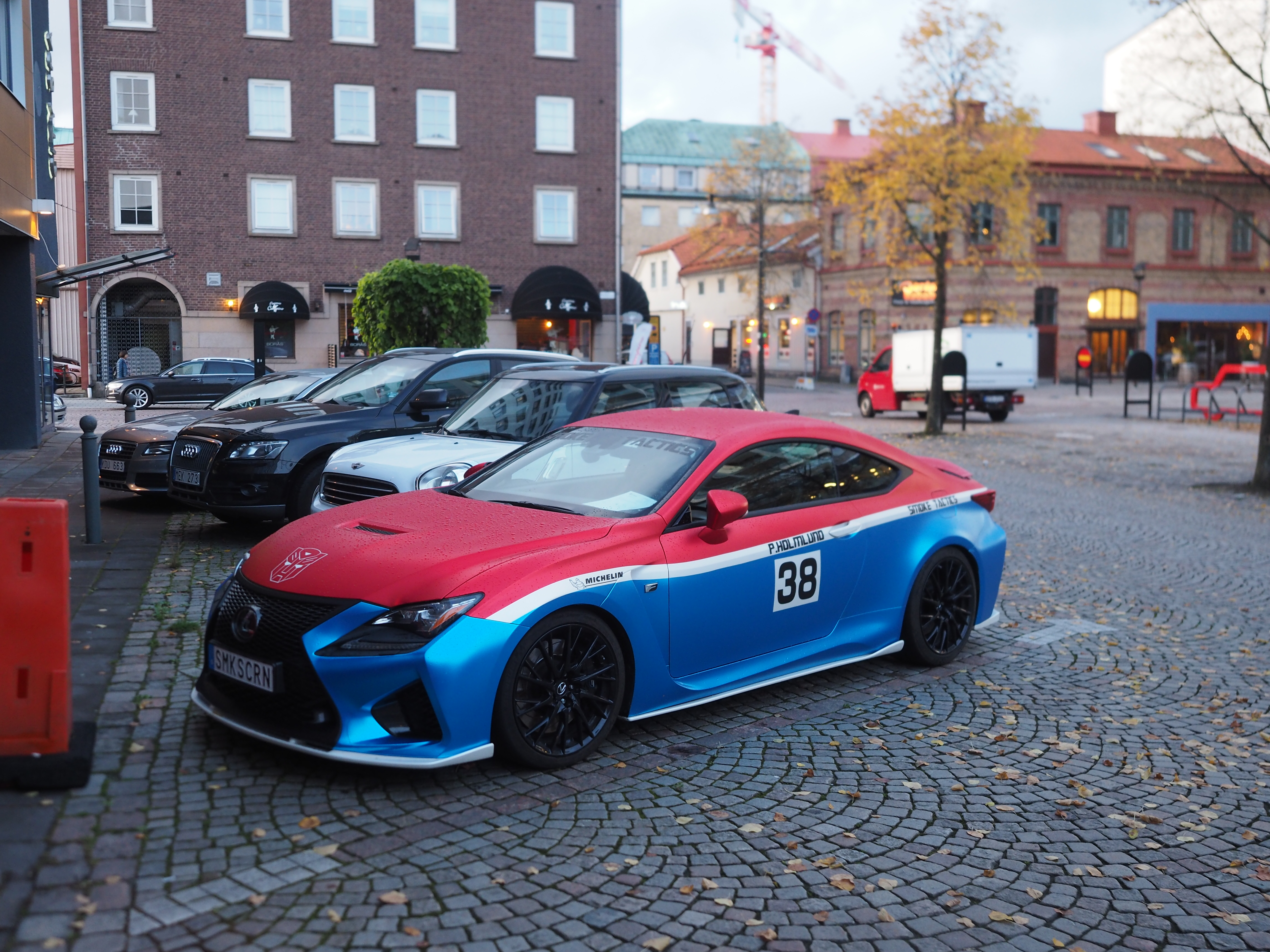 A Lexus RC-F (2015) painted as the Autobot Smokescreen from the Transformers toy line, parked outside a hotel in Borås, Sweden.